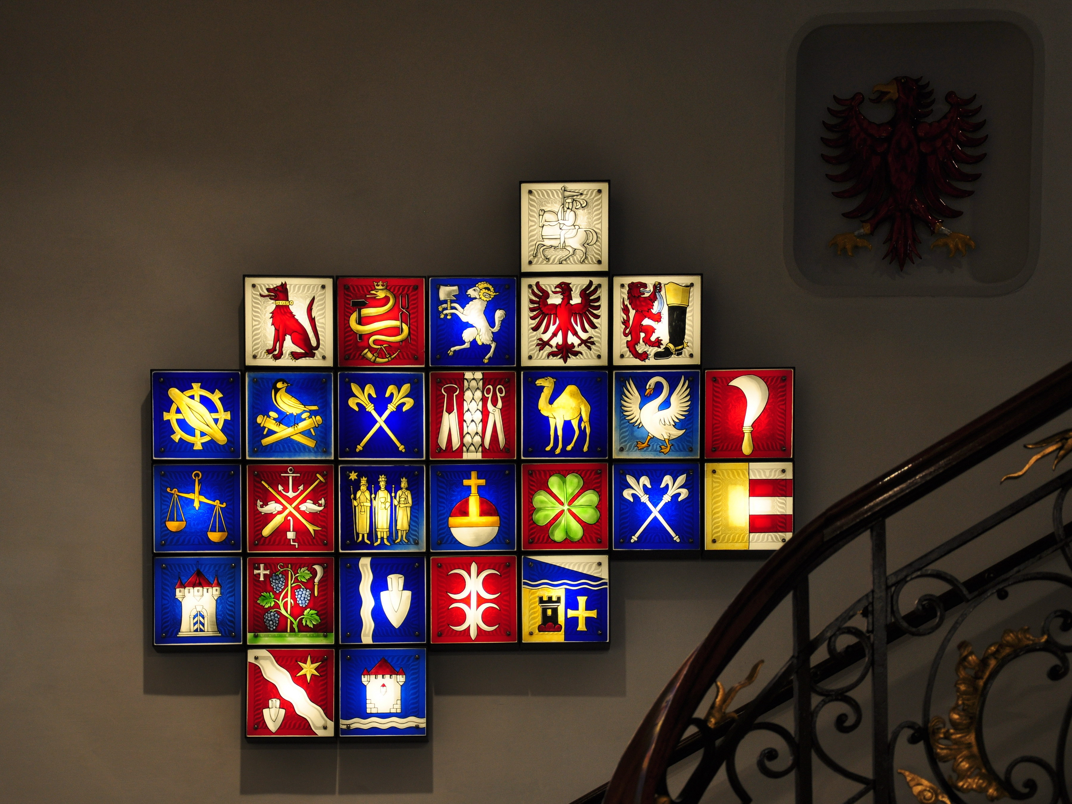 Plaques of the guilds in Zürich, Zunfthaus zur Zimmerleuten – rebuilt and newly inaugurated in October 2010 – at Limmatquai in Zürich (Switzerland)